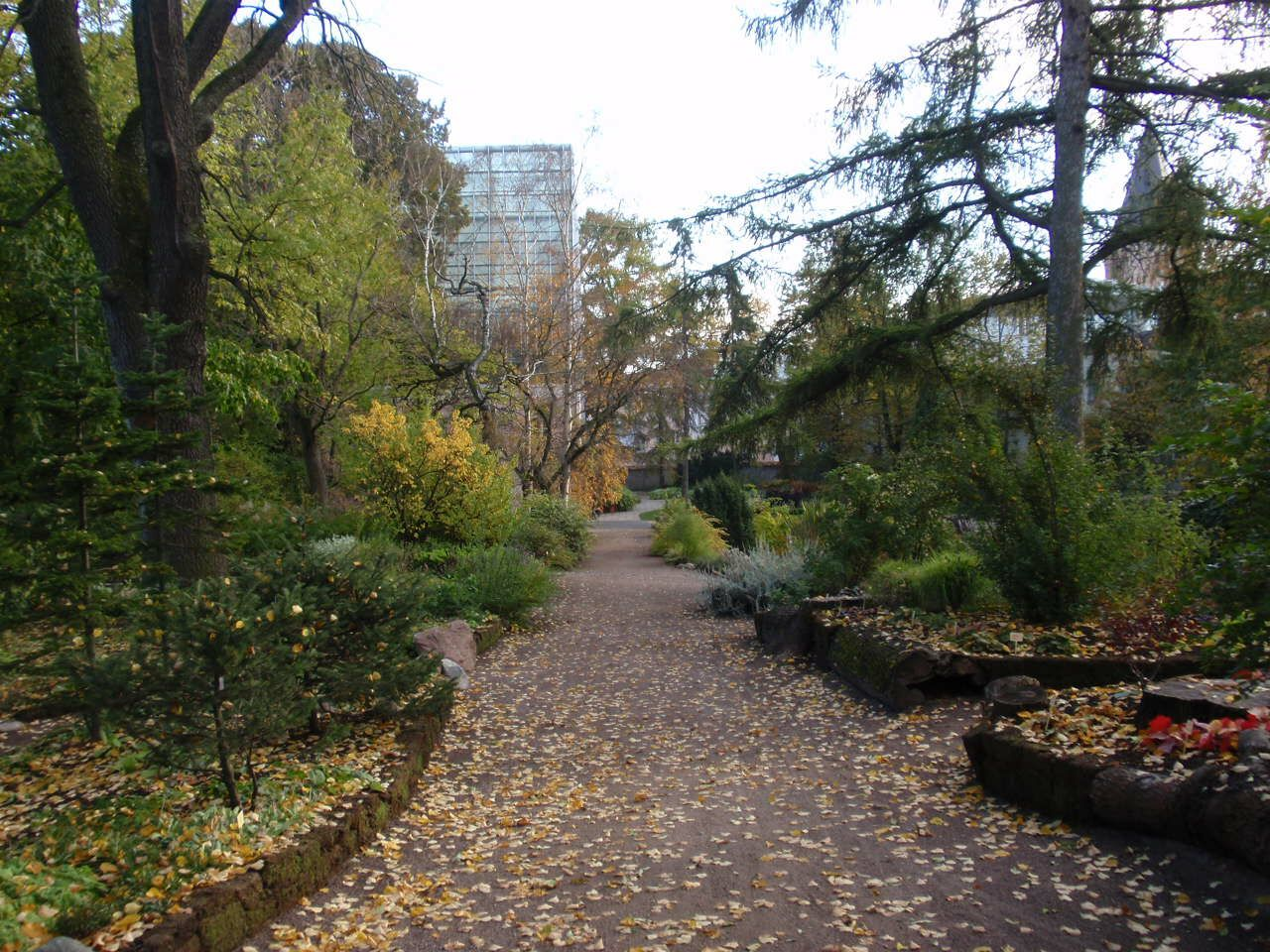 Botanical garden of Tartu University, 2008.